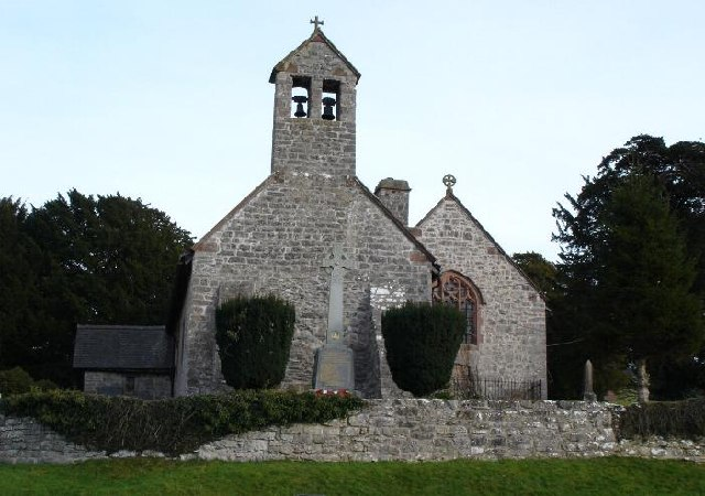 Llanelidan Parish church. The church lies just outside the village and is part of the Nantclwyd Estate